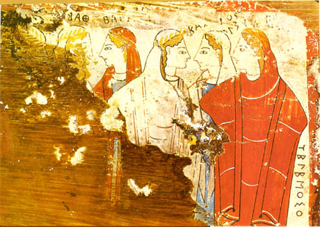 Painted panel found at Pitsa Cave in 1934